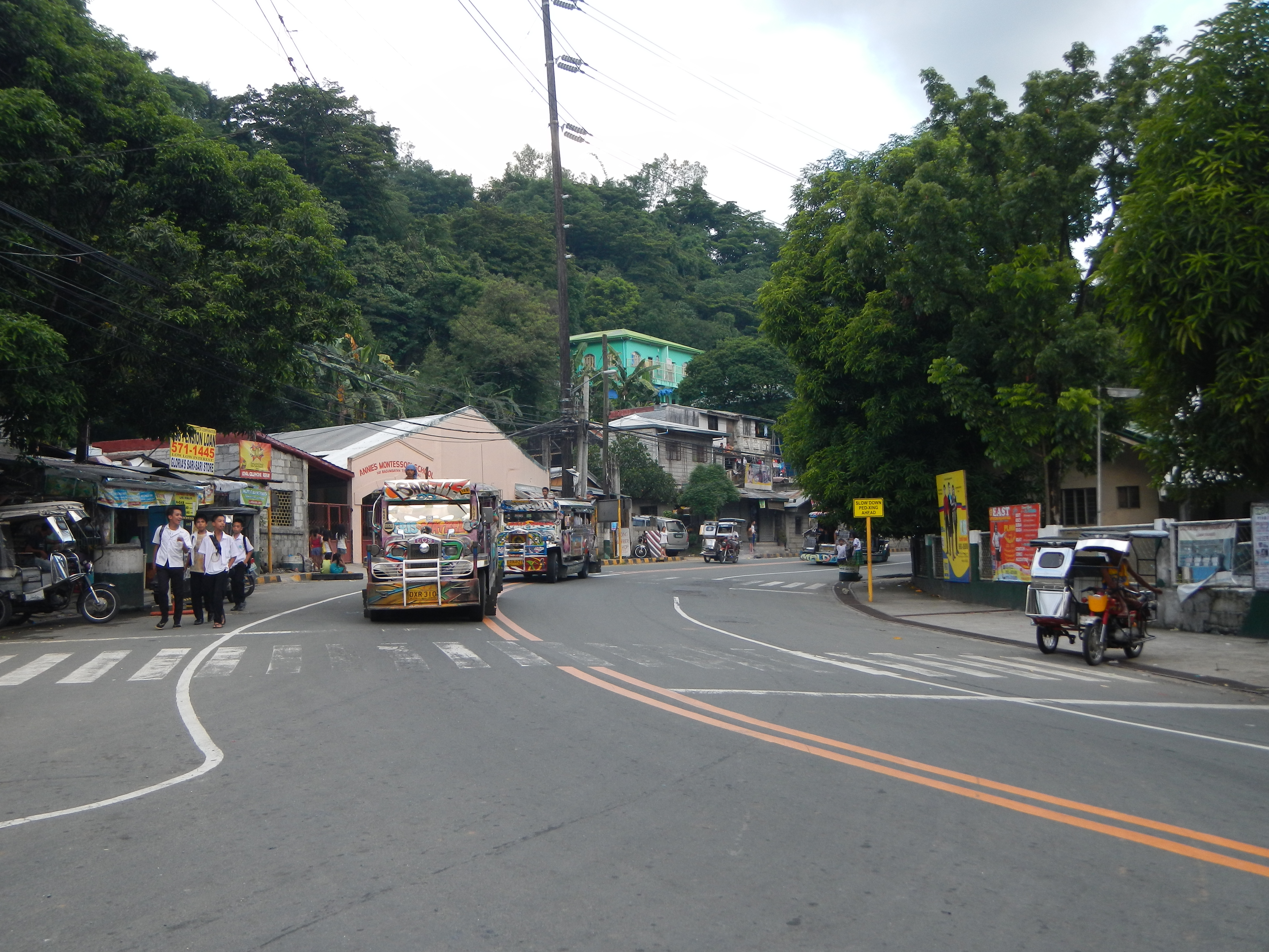 The green grass fields and rice fields of Sitio Pantay & Barangay Bagumbayan Ynares Covered Court, Basketball Court, Barangay Hall, Teresa National High School & Annies Montessori School[1] Coordinates: 14°32'59"N 121°13'7"E ---- Teresa, Rizal [2] is a first class municipality in the province of Rizal, Philippines subdivided into 9 barangays. According to the latest census, it has a population of 44,436 inhabitants in the slopes of the Sierra Madre Mountains and is landlocked on four corners by Antipolo City on the north, Angono on the west, Tanay, on the east, and Morong, on the south. The MRF or Materials Recovery Facility (Teresa Integrated Solid Waste Management Facility) was completed last December 15, 2007 at Pantay Buhangin Road, Barangay Dalig. The town's patron saint, St. Rose of Lima.[3] After three years of independence, the town acquired a municipal building on November 8, 1921, which was called Presedencia. Election 2013 Website [4] Coordinates: 14°33'46"N 121°13'28"E [5] This place is situated in Rizal, Region 4, Philippines, its geographical coordinates are 14° 33' 31" North, 121° 12' 30" East and its original name (with diacritics) is Teresa.